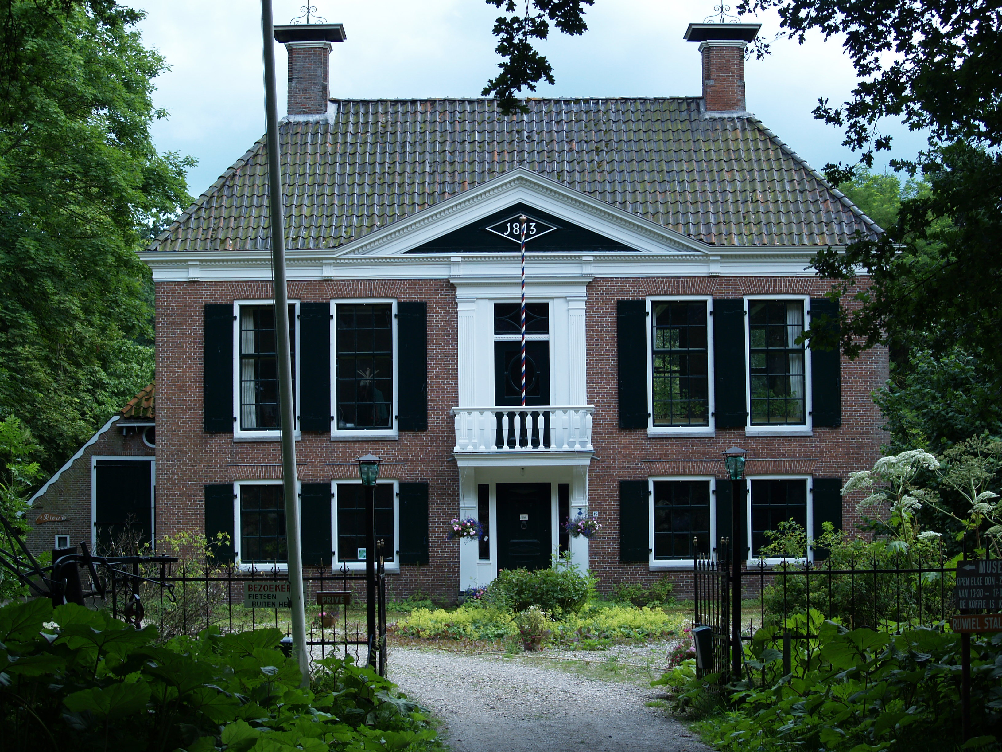 Coendersborg, City of Nuis, The Netherlands